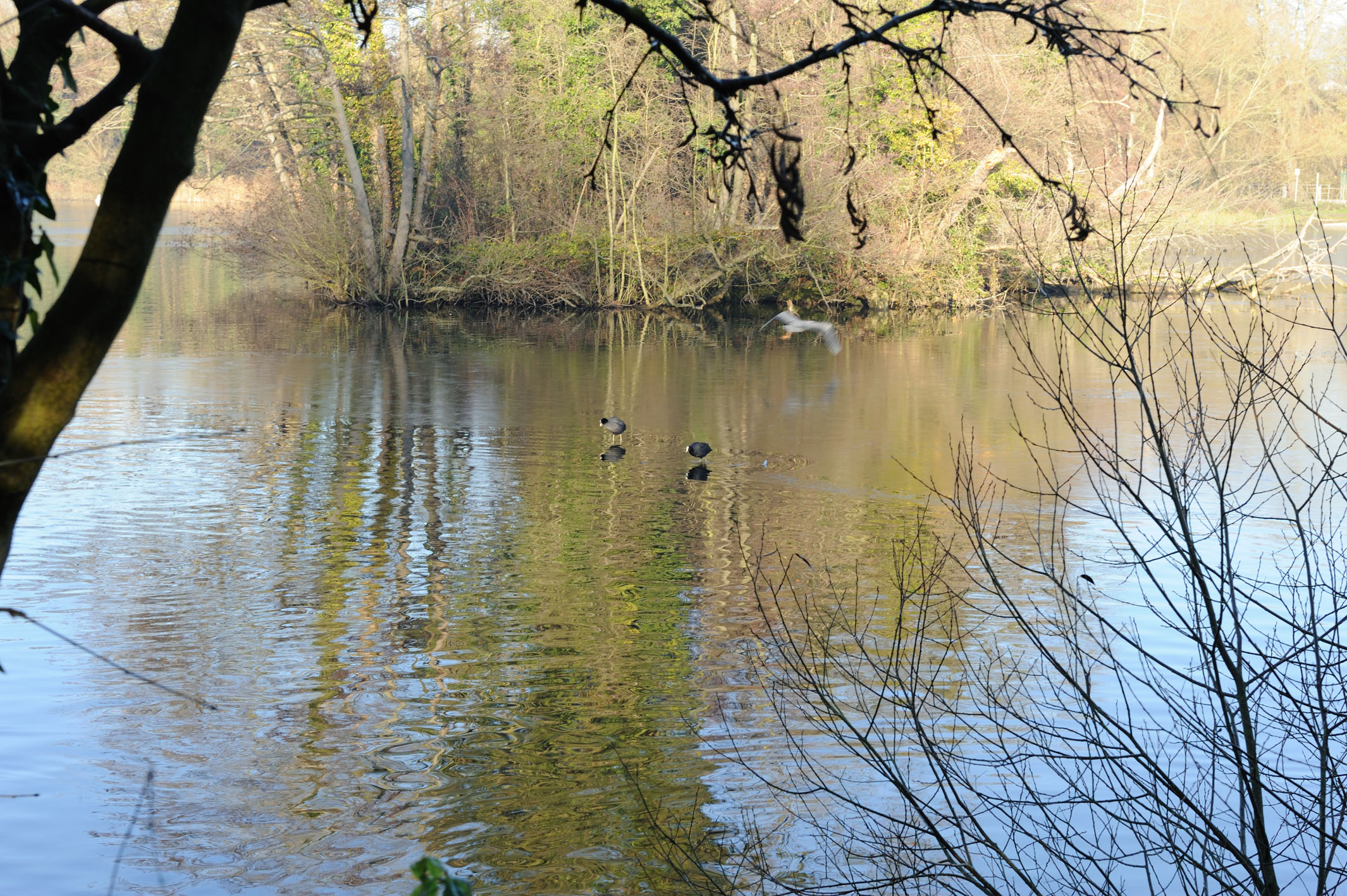 Batchworth Lake, part of Rickmansworth Aqaudrome